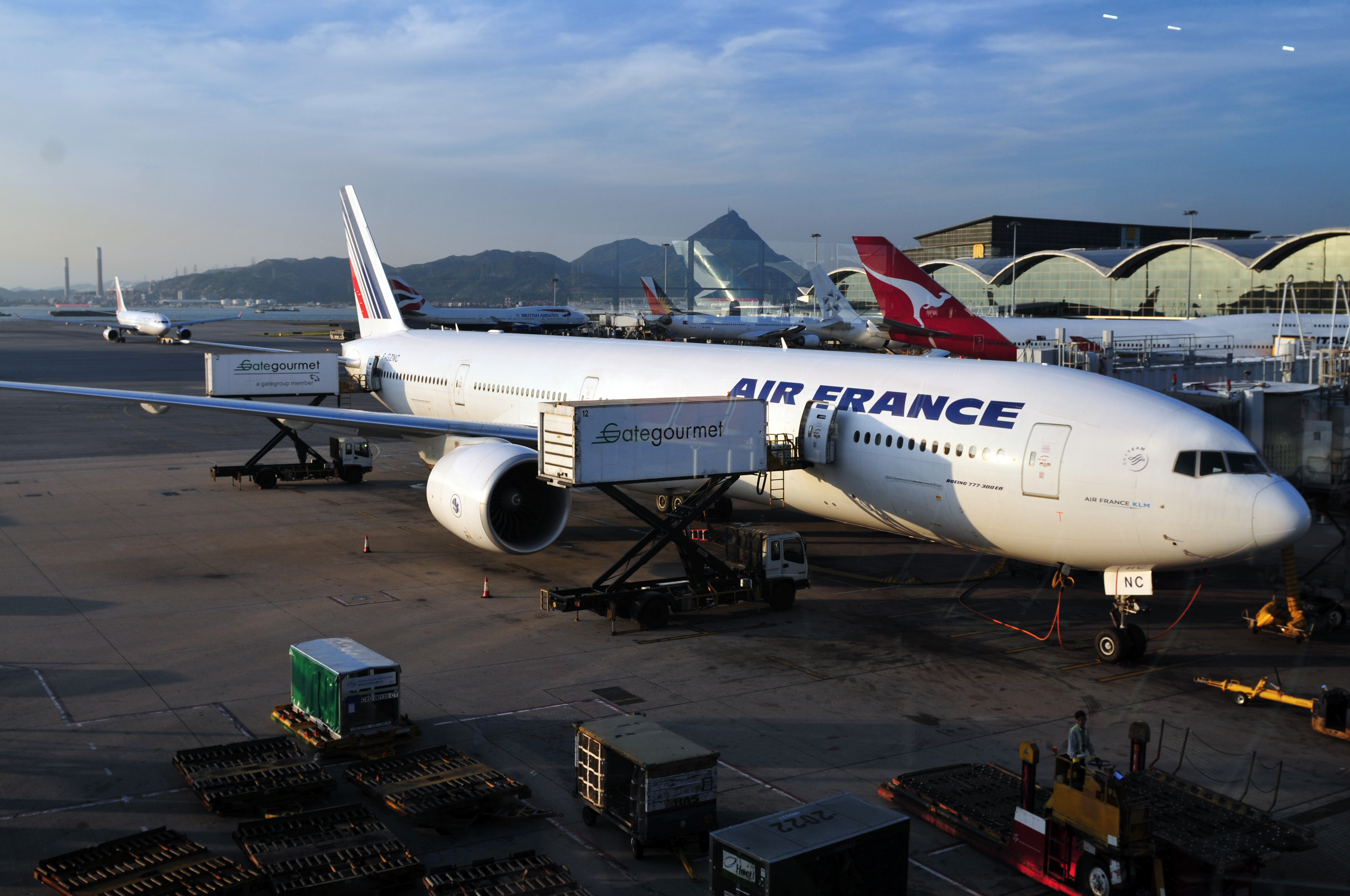 Boeing 777-300ER (Air France) in Hong Kong